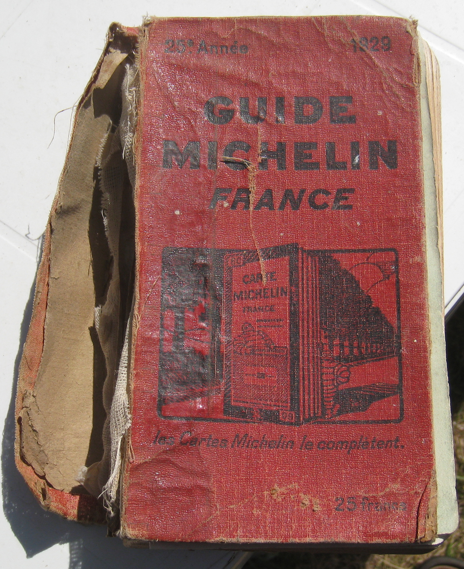 Front cover of a 1929 Guide Michelin book. the book is in poor state.